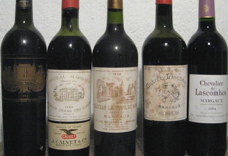 Bottles from the AOC Margaux